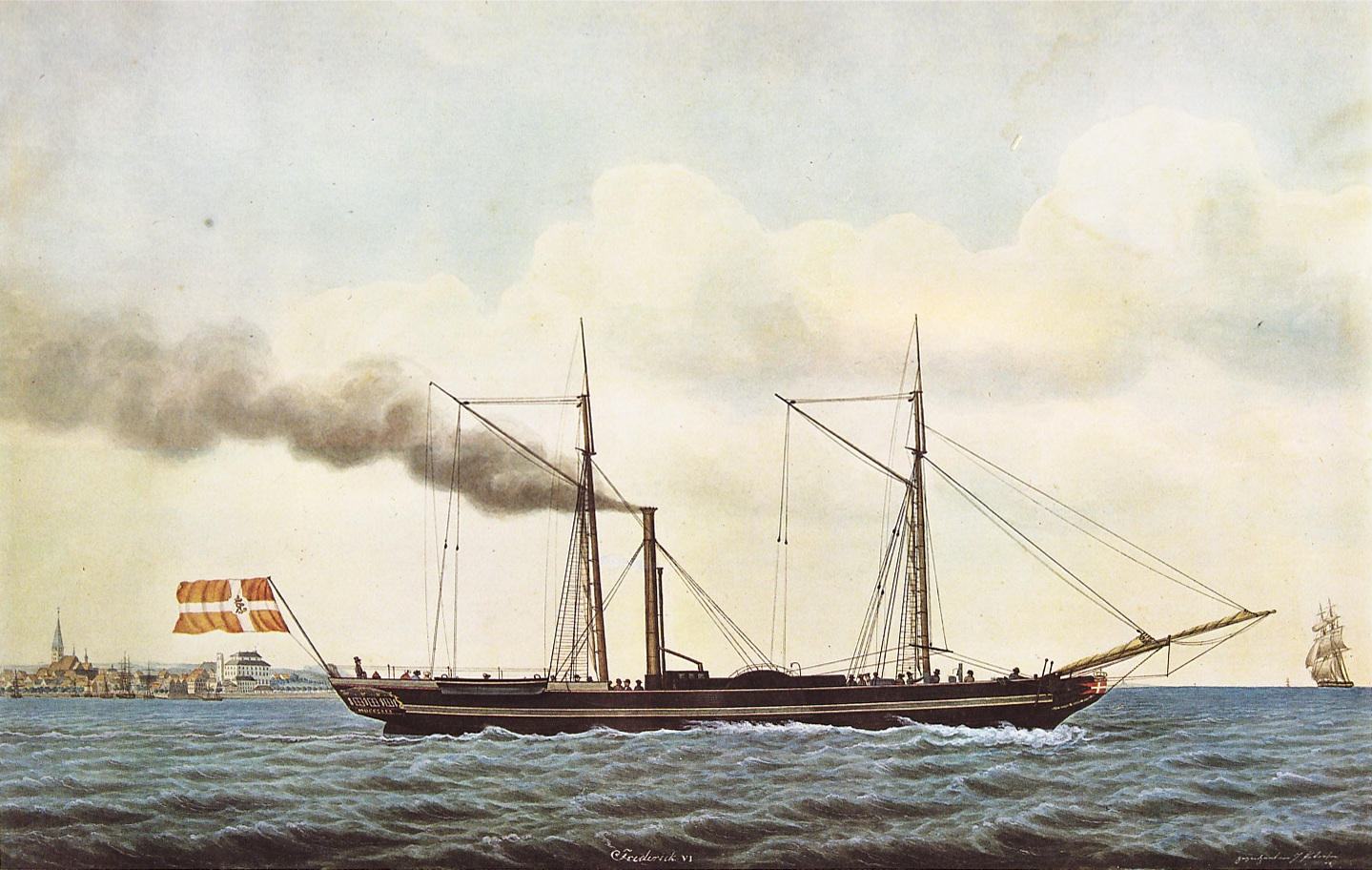 The steamship Frederik den Siette was the first steamship built in Denmark, although the machinery was imported from England. Delivered from Jacob Holms shipyard in Copenhagen in 1830, and employed on the Copenhagen-Kiel line. Wrecked in 1845. Original painting is at the Landesmuseum in Schleswig. Text from Frit Hav. Dansk Skibsfart i 100 år, 1984. Petersen did the painting in 1838 with a background from the Bay of Kiel. (Hanne Poulsen, Danske Skibsportrætmalere, page 46.). Details about the ship